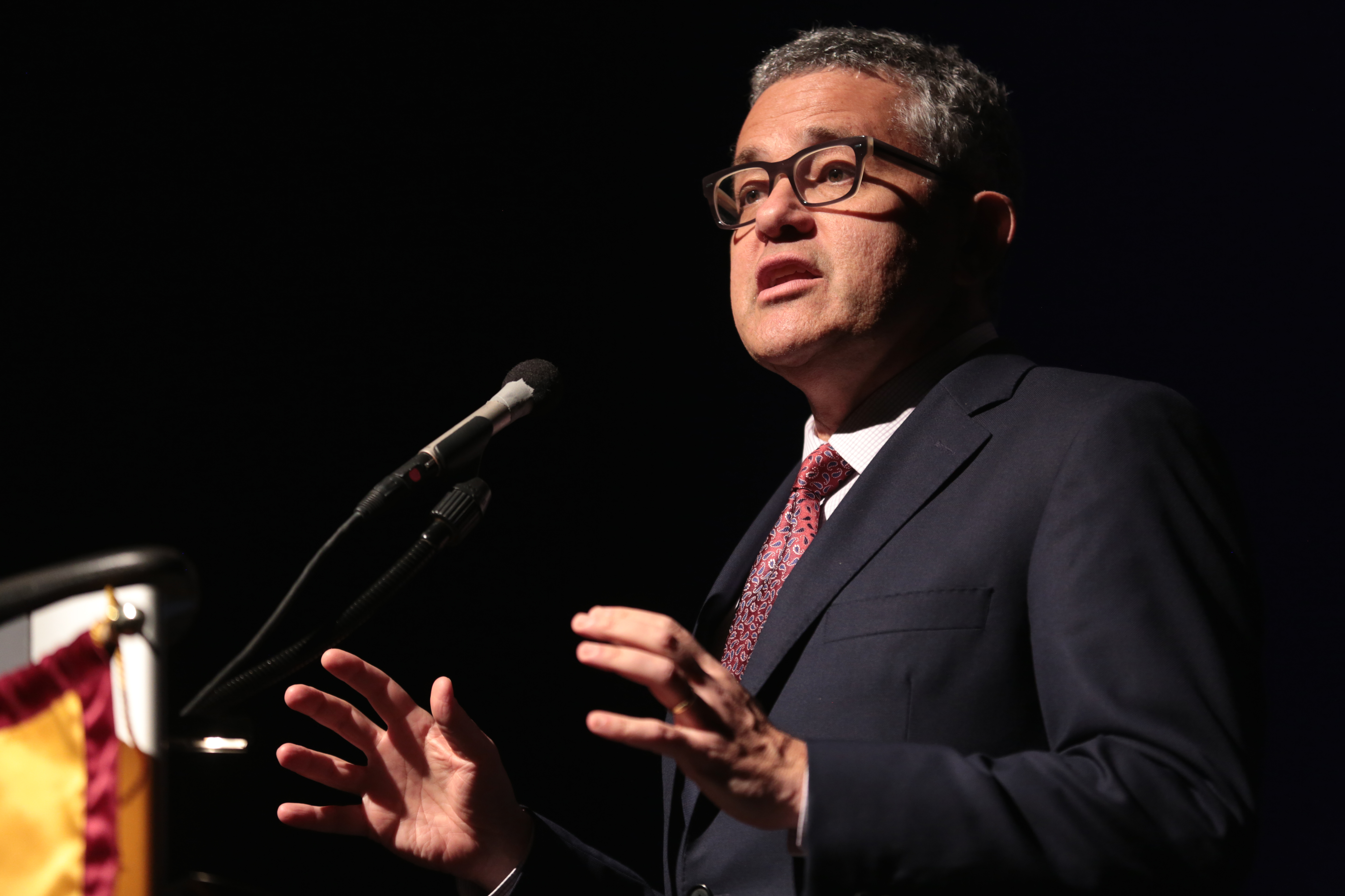 Jeffrey Toobin speaking at an event in Tempe, Arizona.